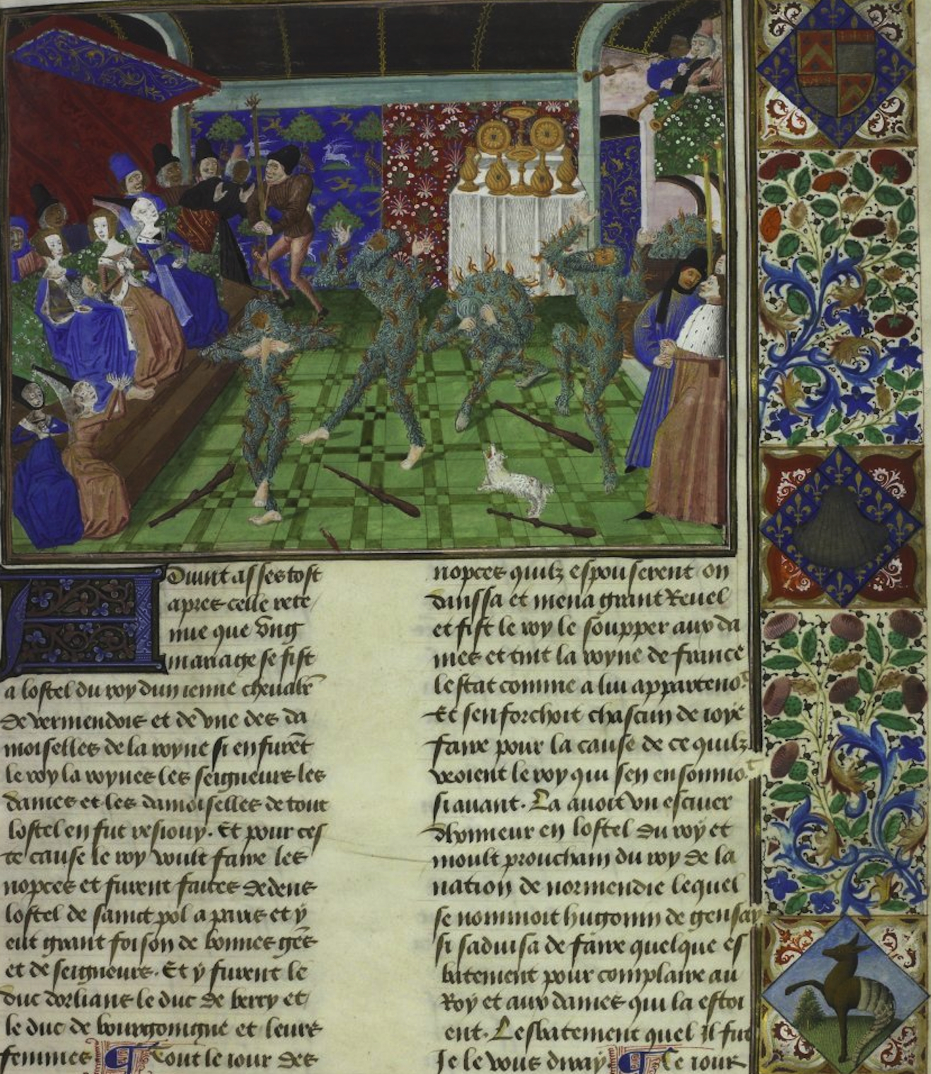 Manuscript leaf from the Harley edition of Jean Froissart's Chroniques, showing a miniature of the 1389 Bal des Ardents titled "Dance of the Wodewoses".